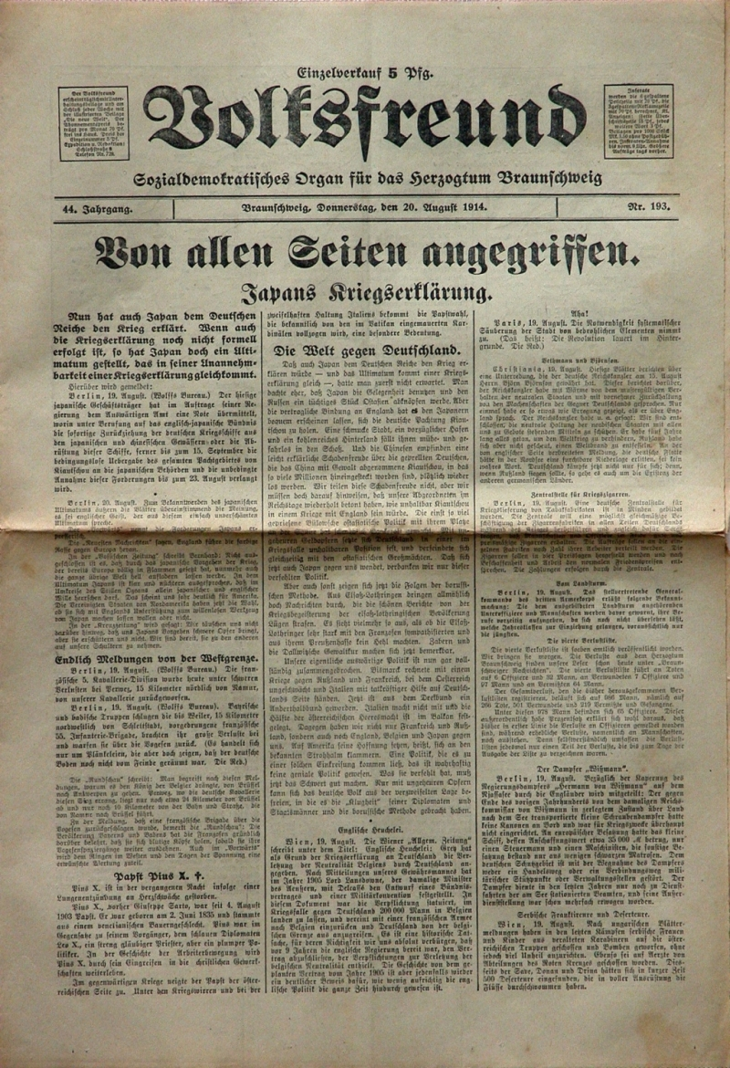 Issue “Braunschweiger Volksfreund” from 20 August 1914.